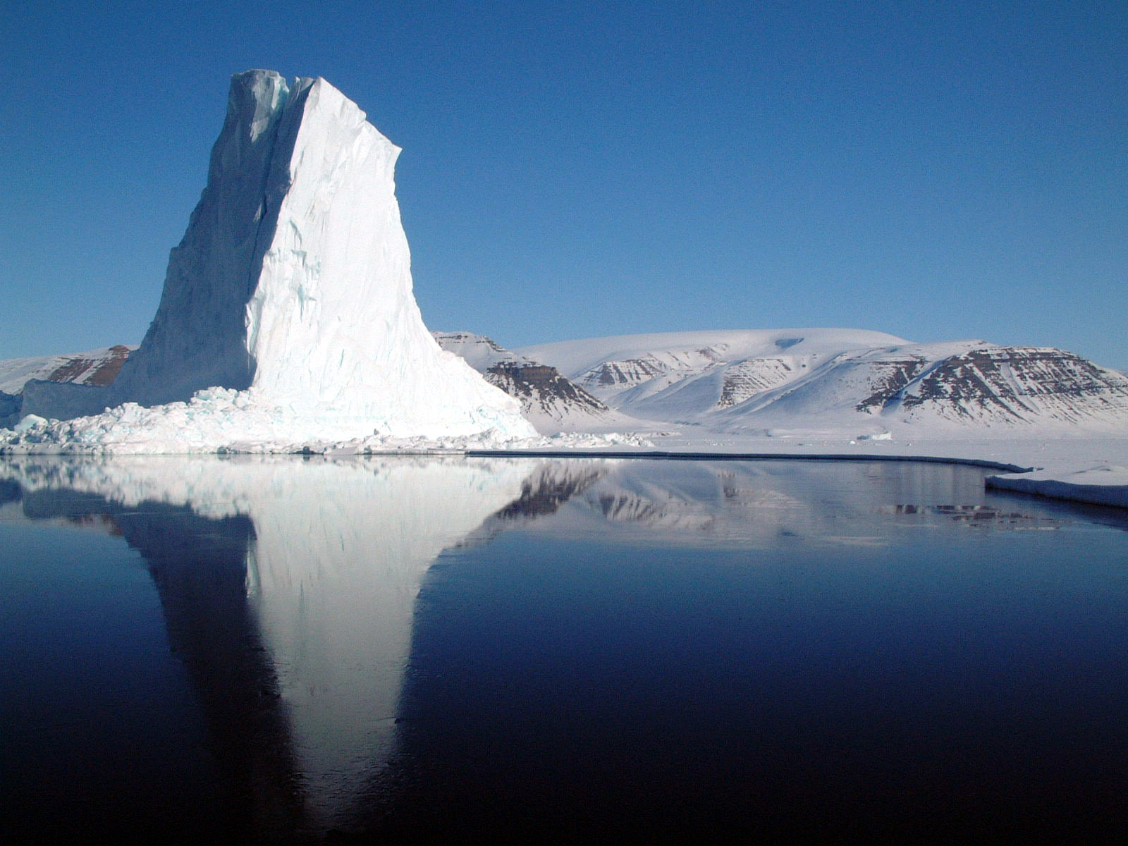 An iceberg at the edge of the Baffin Bay's sea ice, a sight three Airmen from Thule Air Base, Greenland witnessed during a six-day dog-sledding expedition.